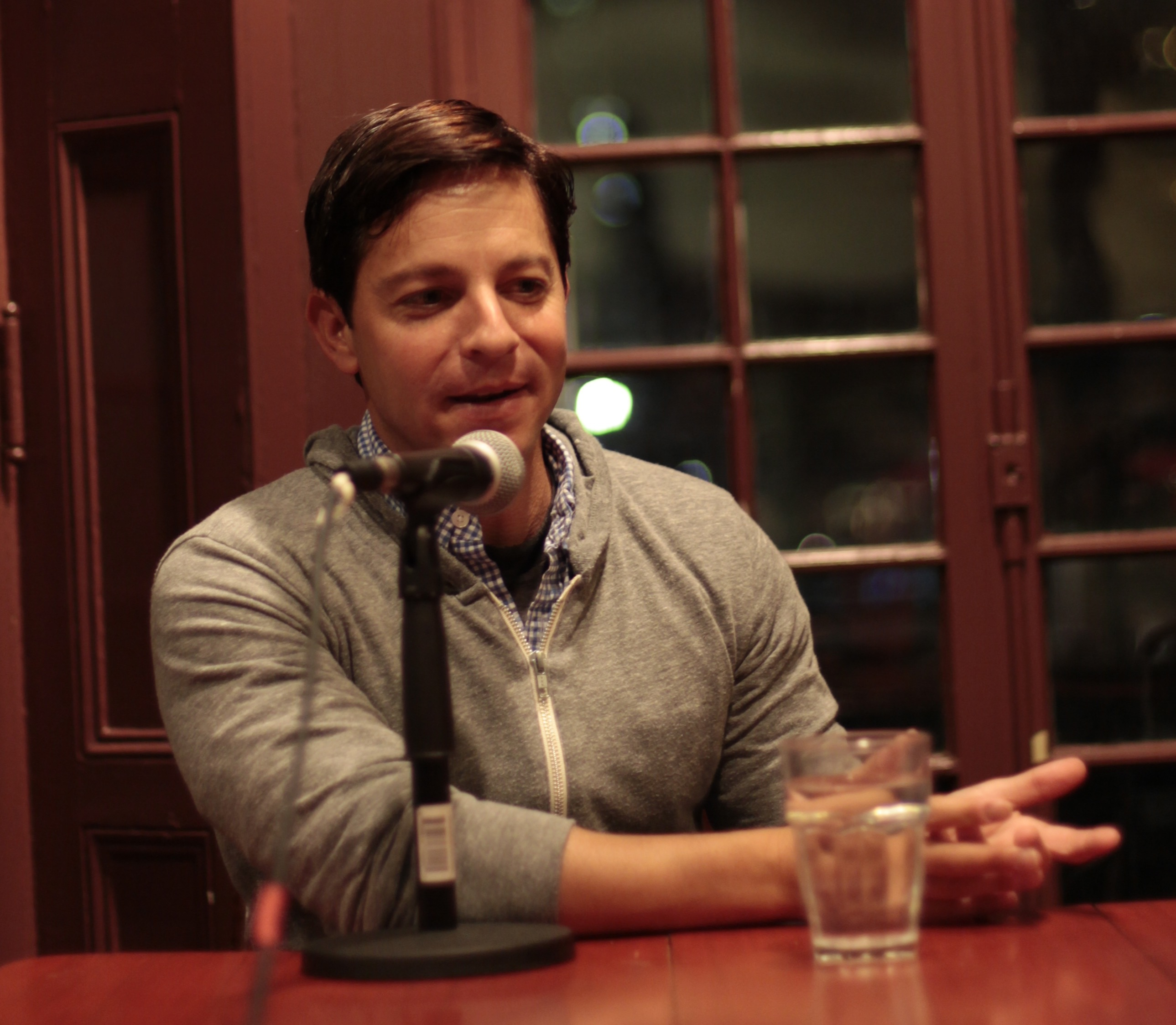 American screenwriter and producer Scott Eric Neustadter at the Kelly Writers House of the University of Pennsylvania in Philadelphia.